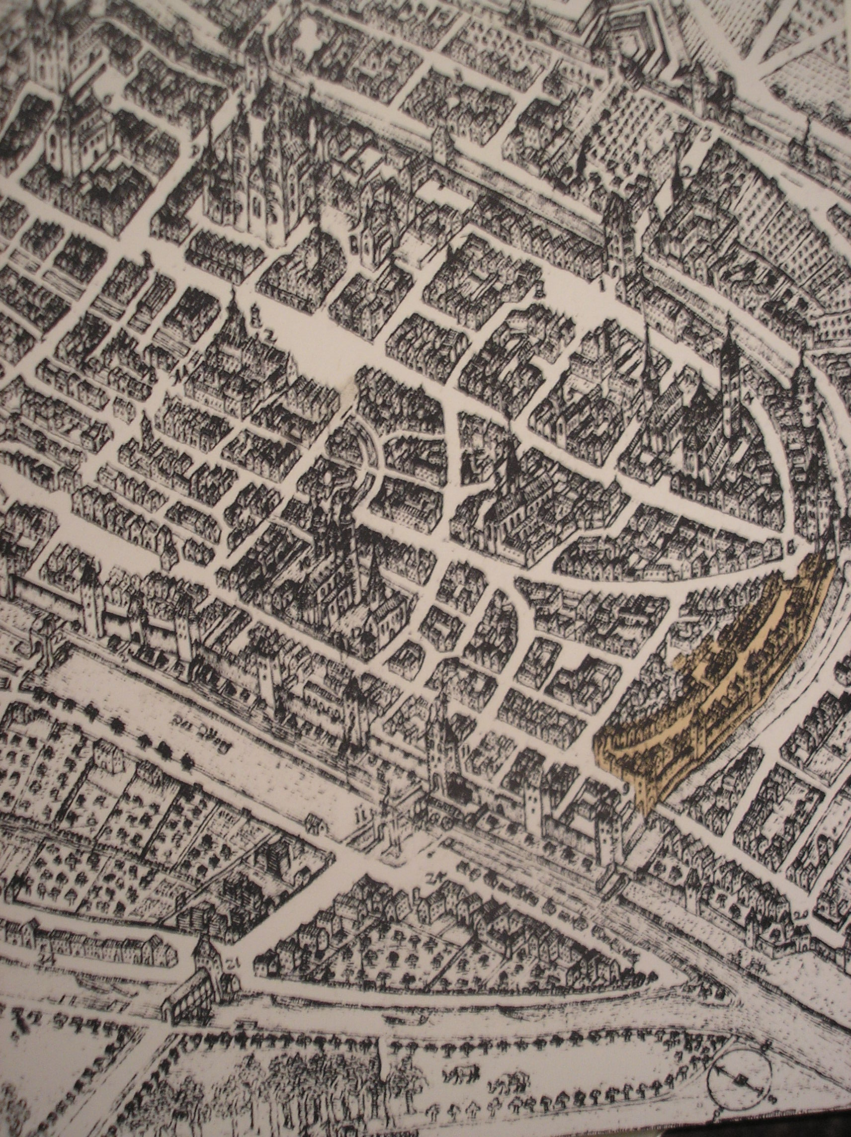 A map of Worms from 1630 in the Jewish Museum, Berlin. The Jewish ghetto marked in yellow